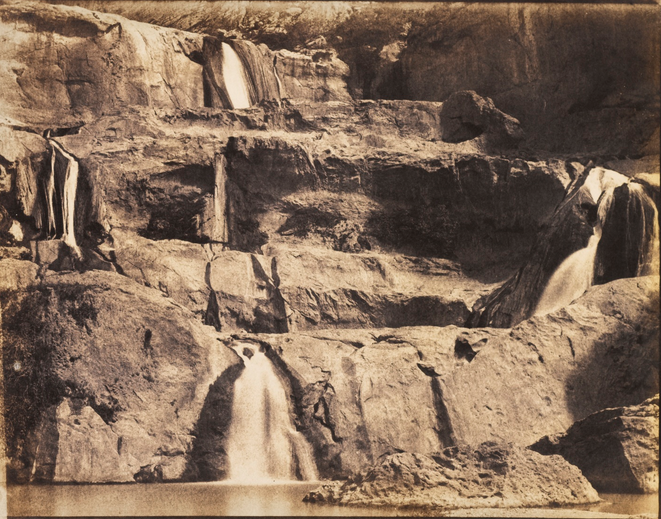 Album, contemporary green cloth with monogram gilt 'A.L.' on the cover, spine modern cloth, with 44 photographic prints individually pasted to blue albumen card. 43 prints by John Beasley Greene after paper negatives, 39 salt prints and 5 albumenised salt prints. 15 prints with the signature and reference number in the negative. Also included are drawings, watercolours and further handwritten documents in Arabic.